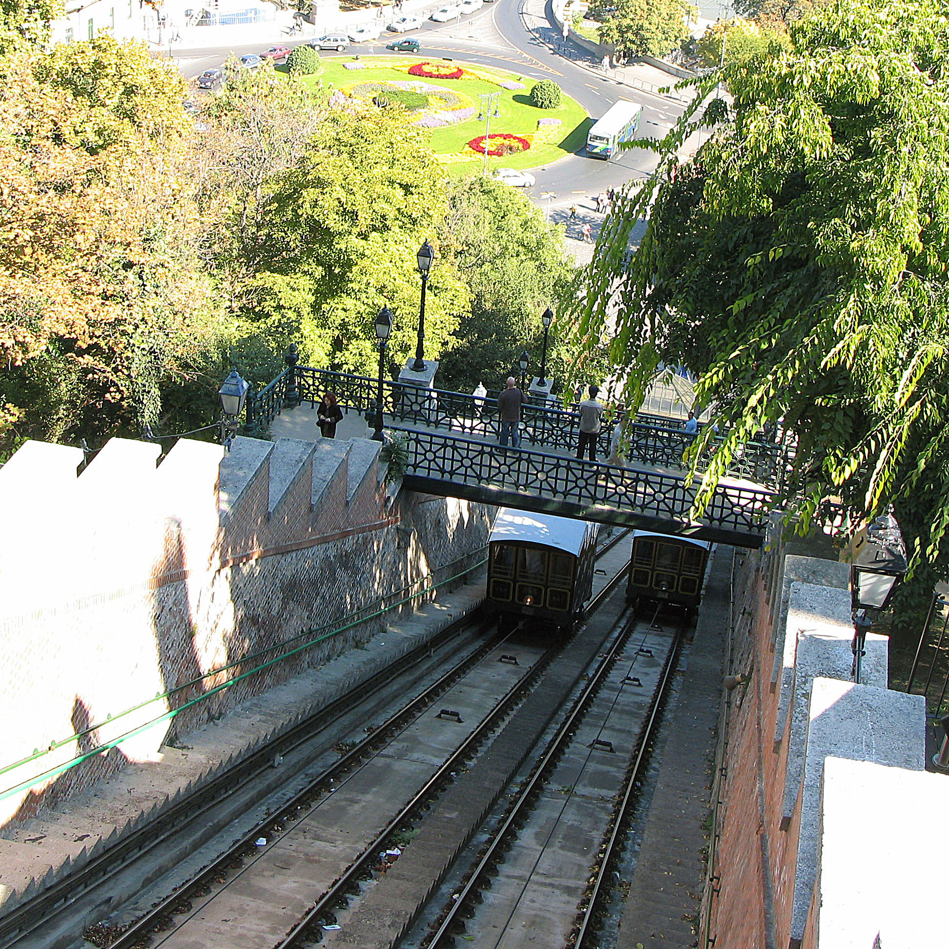 Budavari Siklo, city Budapest Castle Hill Funicular